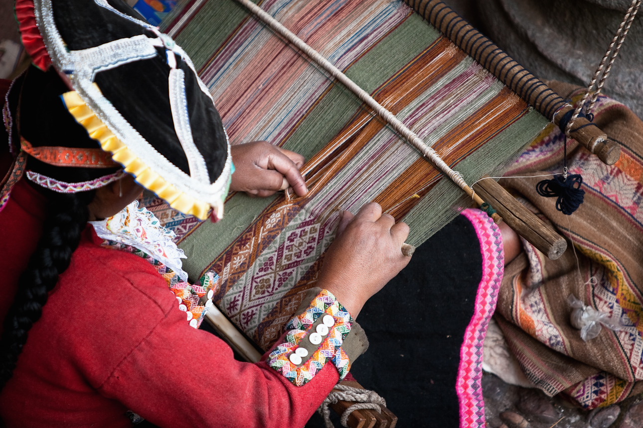 This woman is showing how local textiles are woven. Cusco, Peru